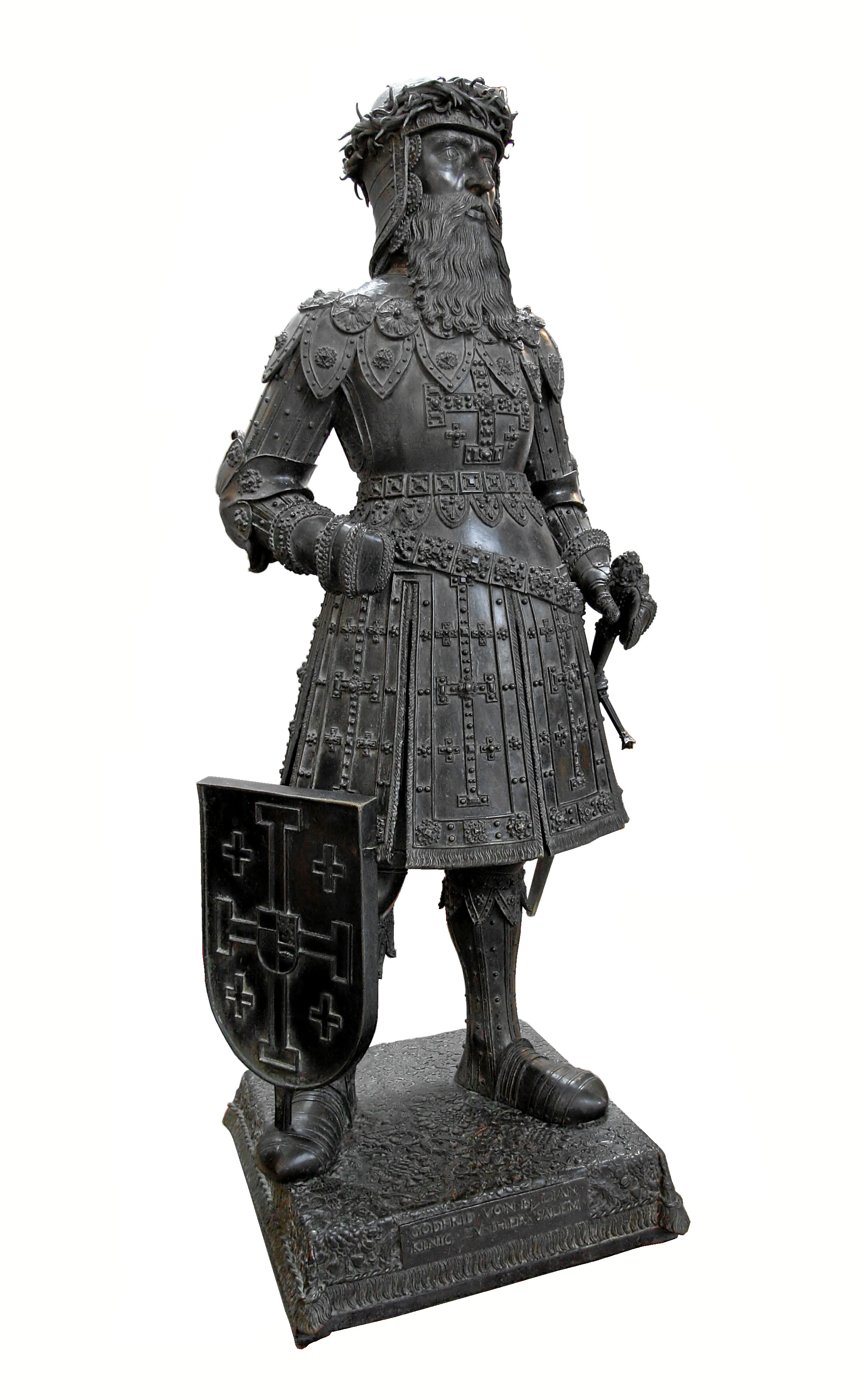 Bronze statue of Godfrey of Bouillon in the Hofkirche of Innsbruck.